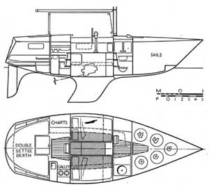 General Arrangement of Yamaha 29